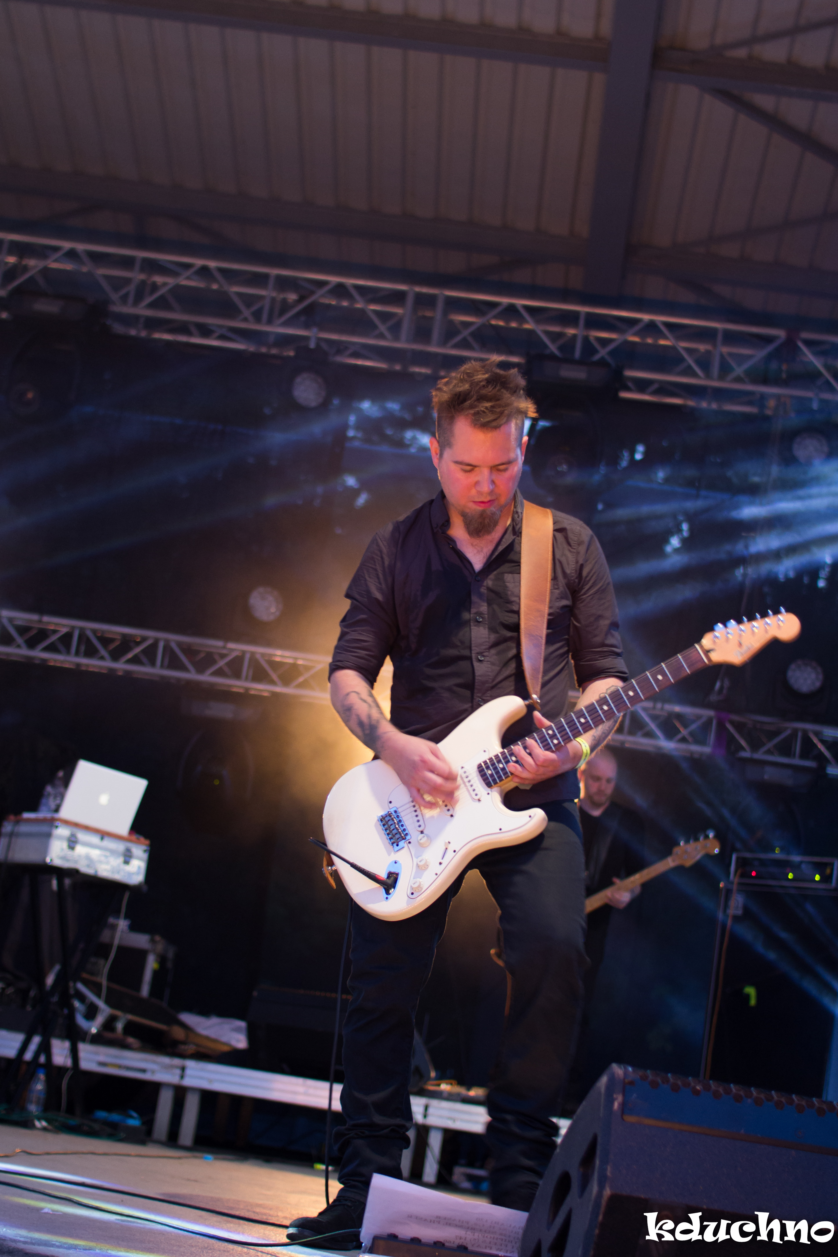 Marek Zieliński of Blindead